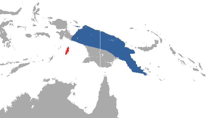 Short-furred Dasyure (Murexia longicaudata) range (blue — native, red — introduced)